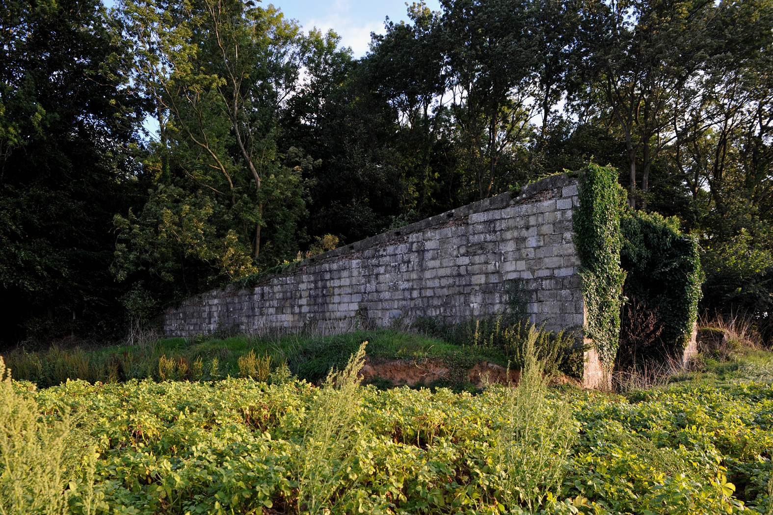 V1-site Yvrench (Bois Carré), protection walls of the launching pad; Somme, France.